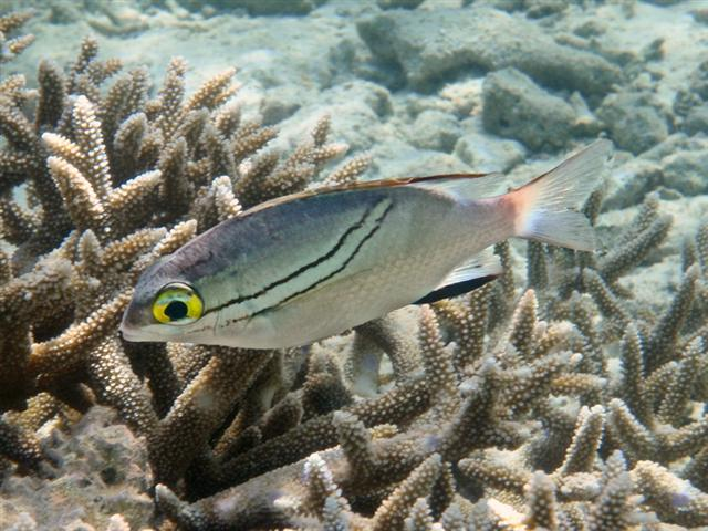 Scolopsis bilineata photographed in Mirihi, Maldives.